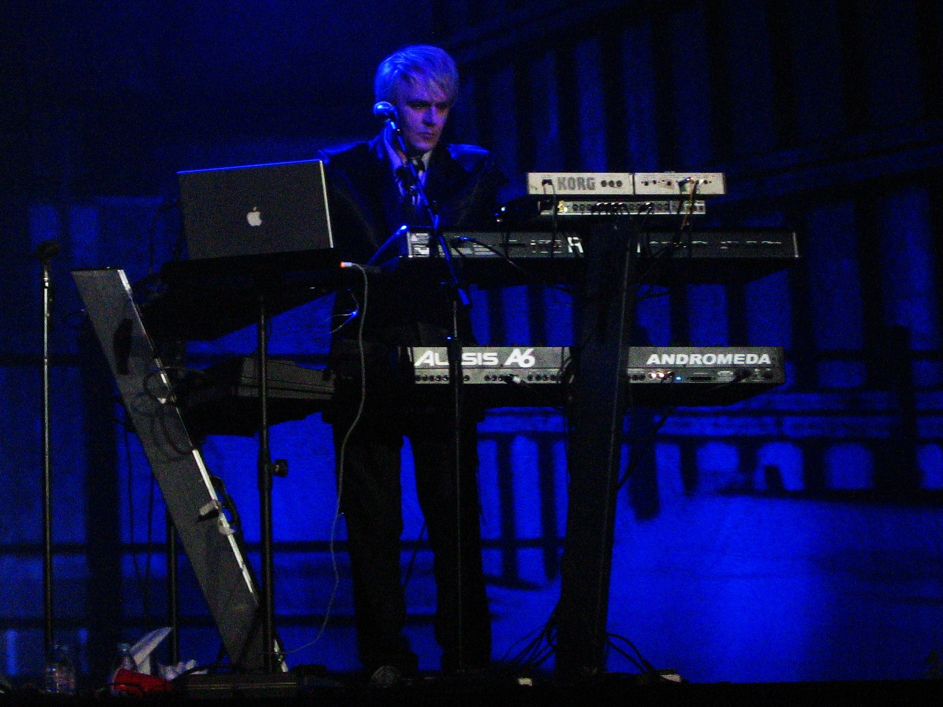 Nick Rhodes (Nicholas James Bates) - the English keyboardist for Duran Duran.